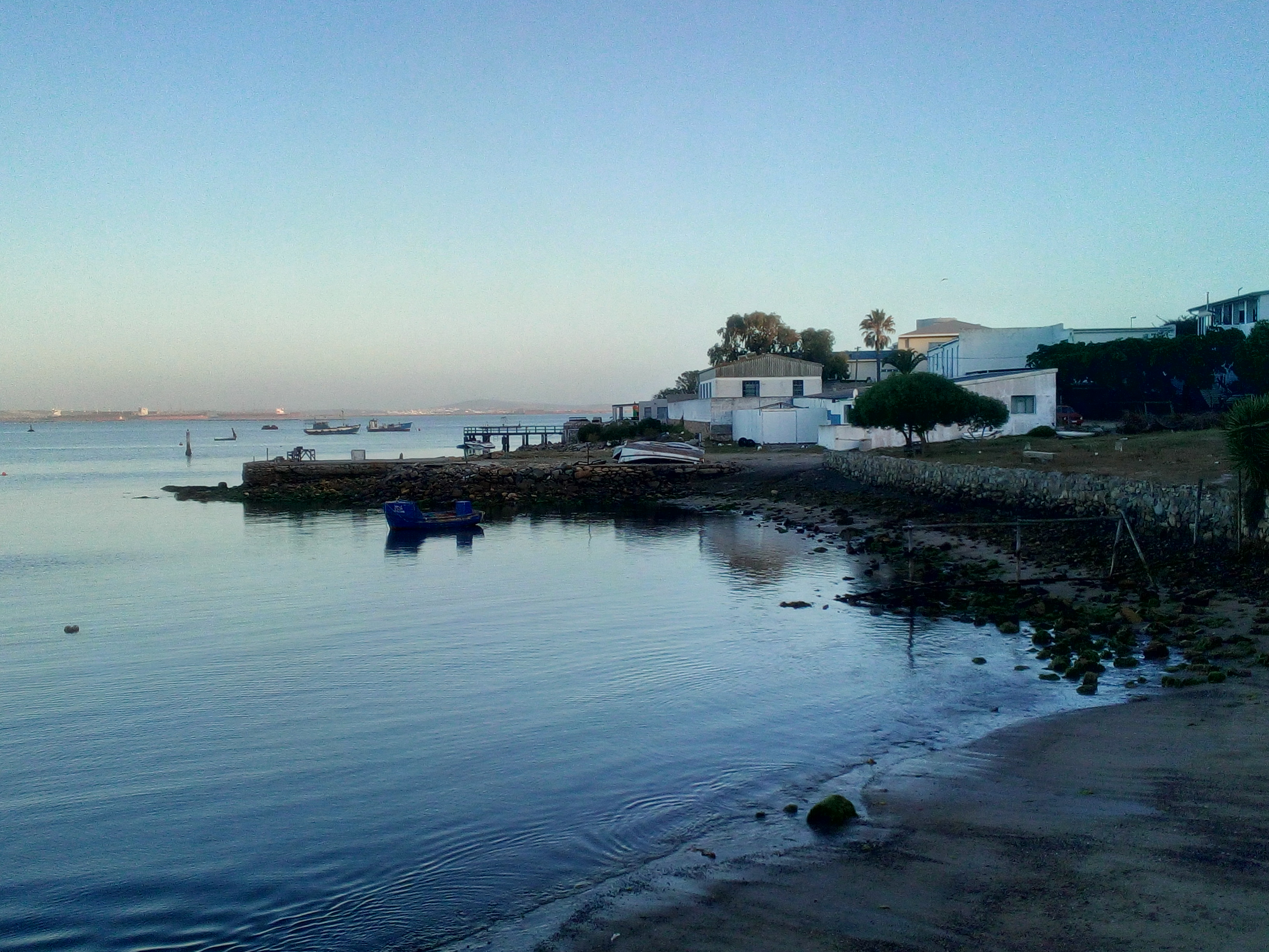 Beautiful image taken in Saldanha Bay, South Africa